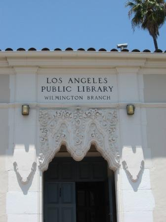 Wilmington Branch, former Los Angeles Public Library branch, detail